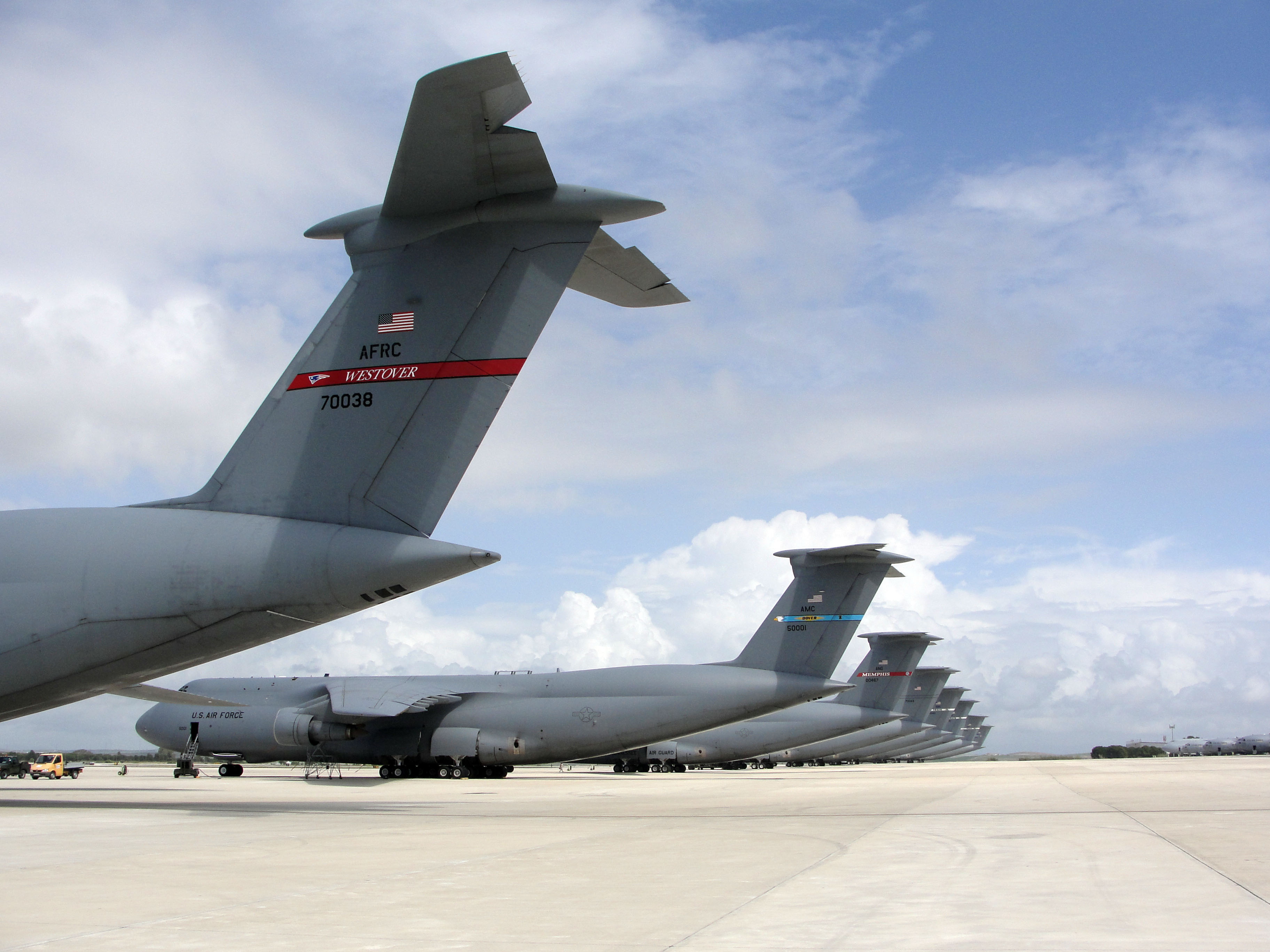 ROTA, Spain. Aircraft assigned to the U.S. Air Force Air Mobility Command are on the flight line at Naval Station Rota, Spain. Naval Station Rota and nearby Moron Air Base absorbed many U.S. military flights that were diverted from Northern European routes due to ash from a volcanic eruption in Iceland. The number of daily flights arriving at Naval Station Rota, typically eight to 13, doubled over the weekend. Moron Air Base, which averages one or two flights a day, has seen a ten-fold increase.